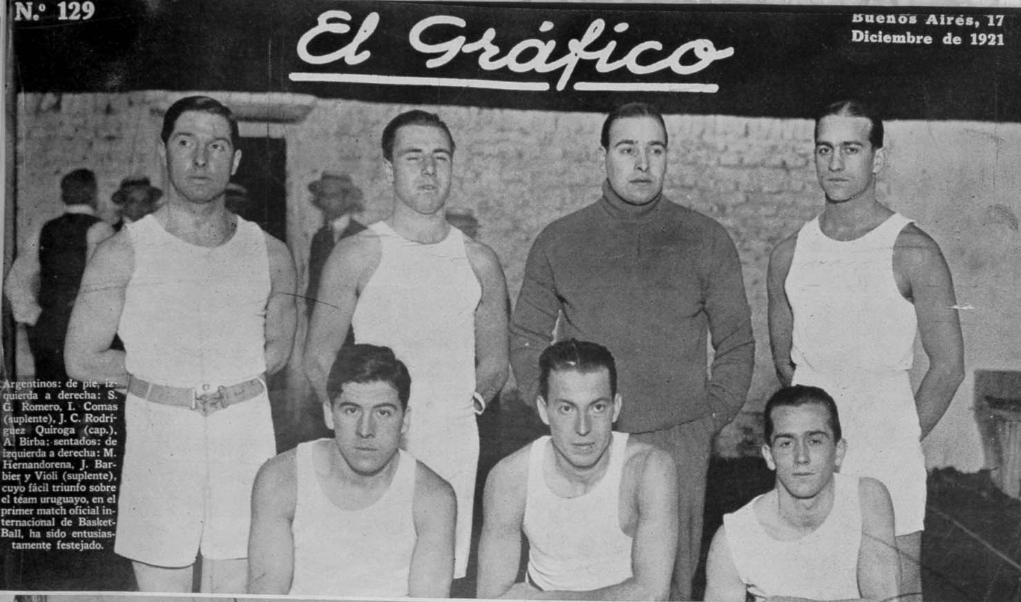 The Argentina national basketball team during its first international match, vs. Uruguay. From left to right: (up): S.G. Romero, I. Comas, J.C. Rodríguez Quiroga, A. Birba; (down): M. Hernandorena, J. Barbier, Violi.